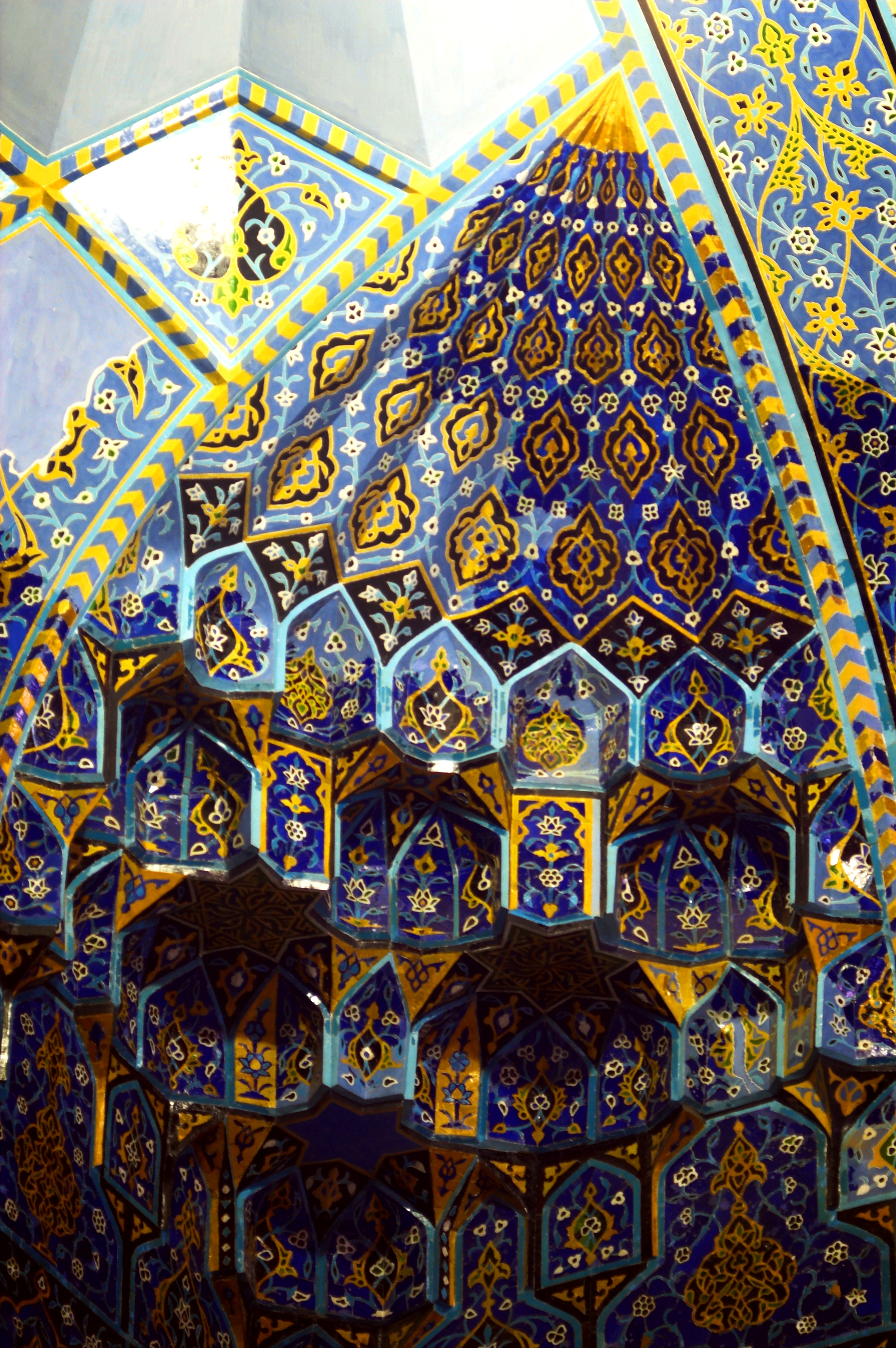 Detail of restoration under work at Tabriz's Blue Mosque